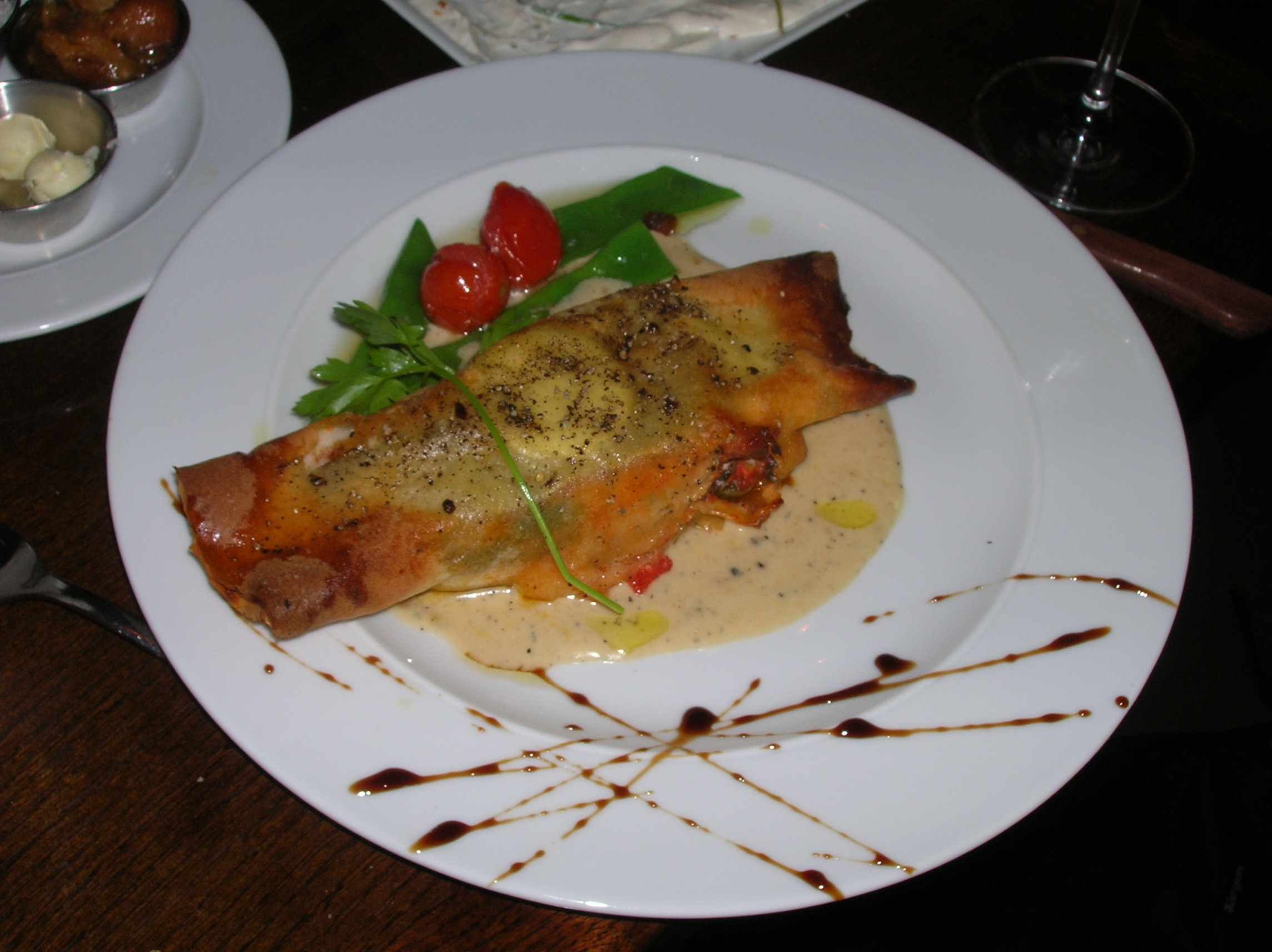 Avi biton 2011 2